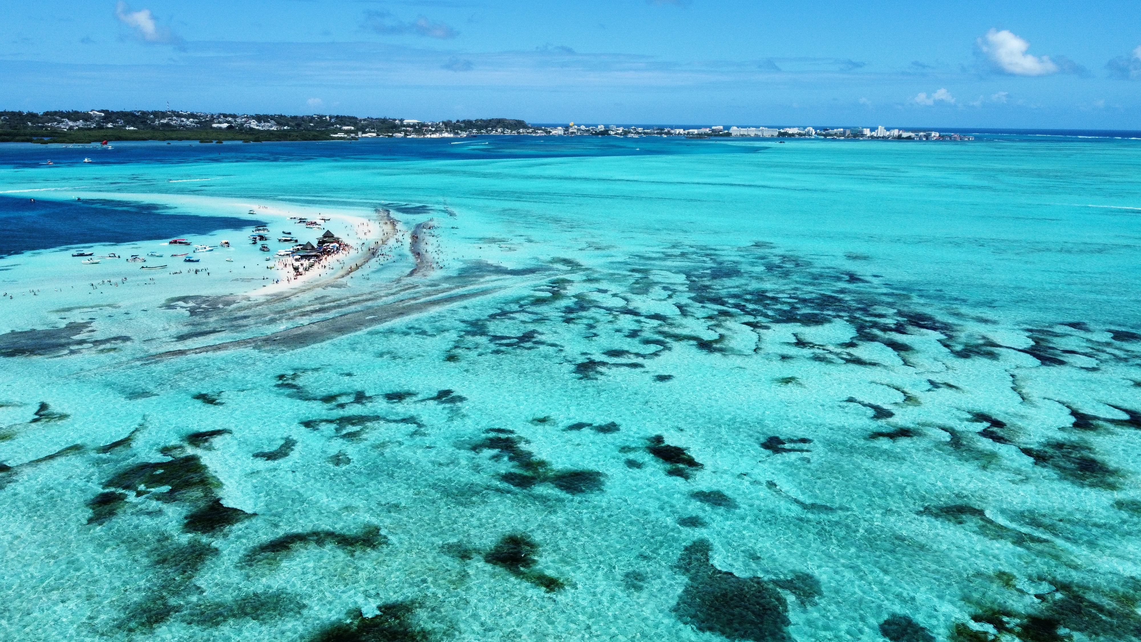 santo baterno